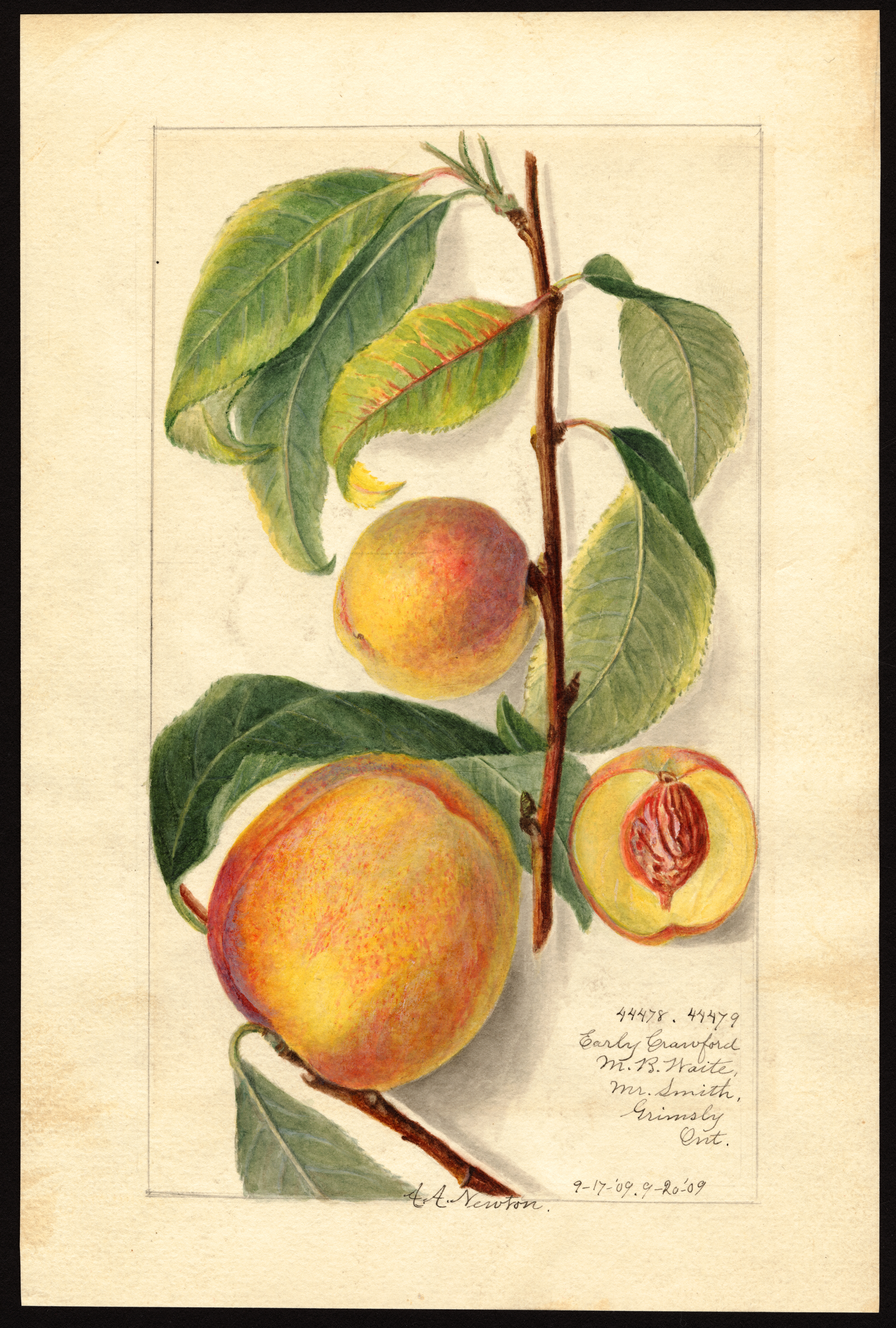 Image of peaches (scientific name: Prunus persica), with this specimen originating in Grimsby, Ontario, Canada. Source: U.S. Department of Agriculture Pomological Watercolor Collection. Rare and Special Collections, National Agricultural Library, Beltsville, MD 20705.